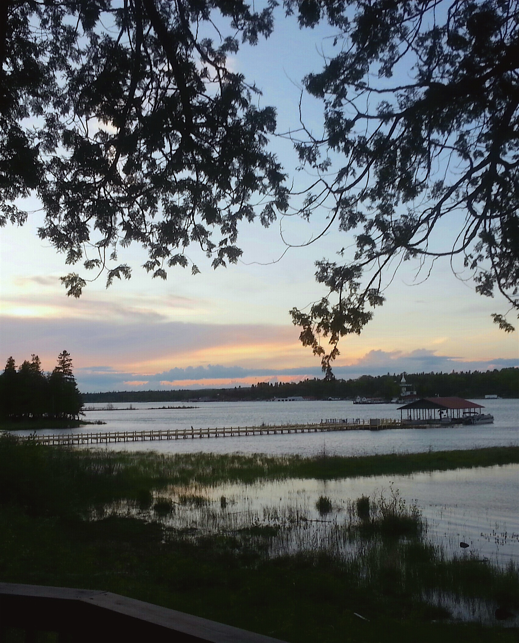 Digital sunset photo taken on Marquette Island, May 2016.